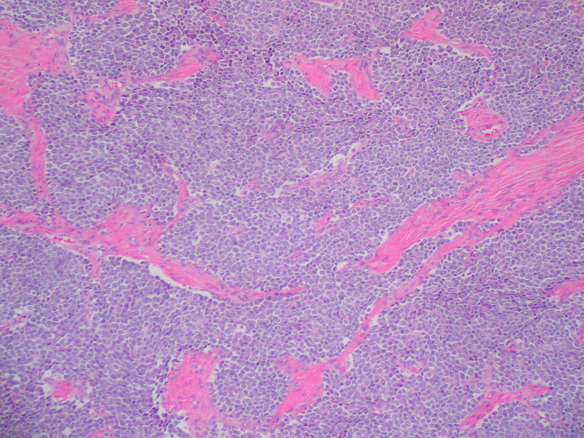 Ewing Sarcoma Pathological and histological images courtesy of Ed Uthman at flickr.